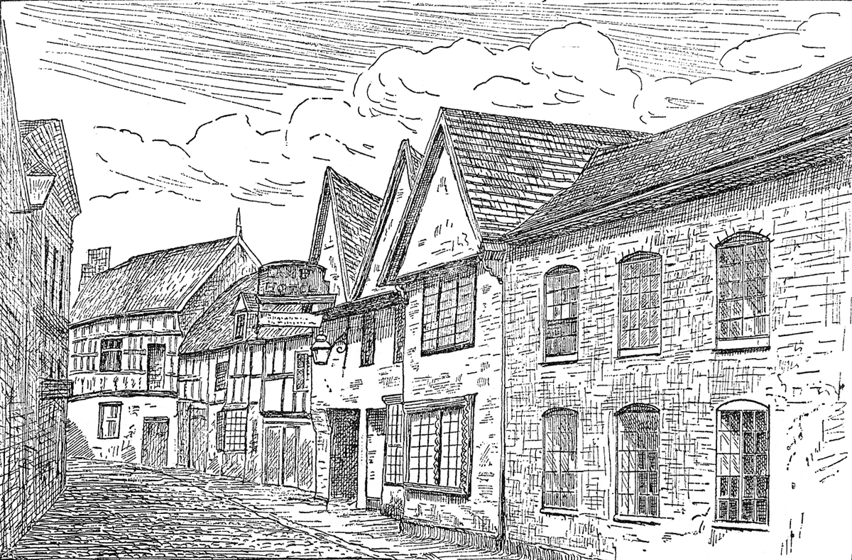 Engraving of the old Lamb Hotel, Hospital Street, Nantwich, Cheshire, before 1861